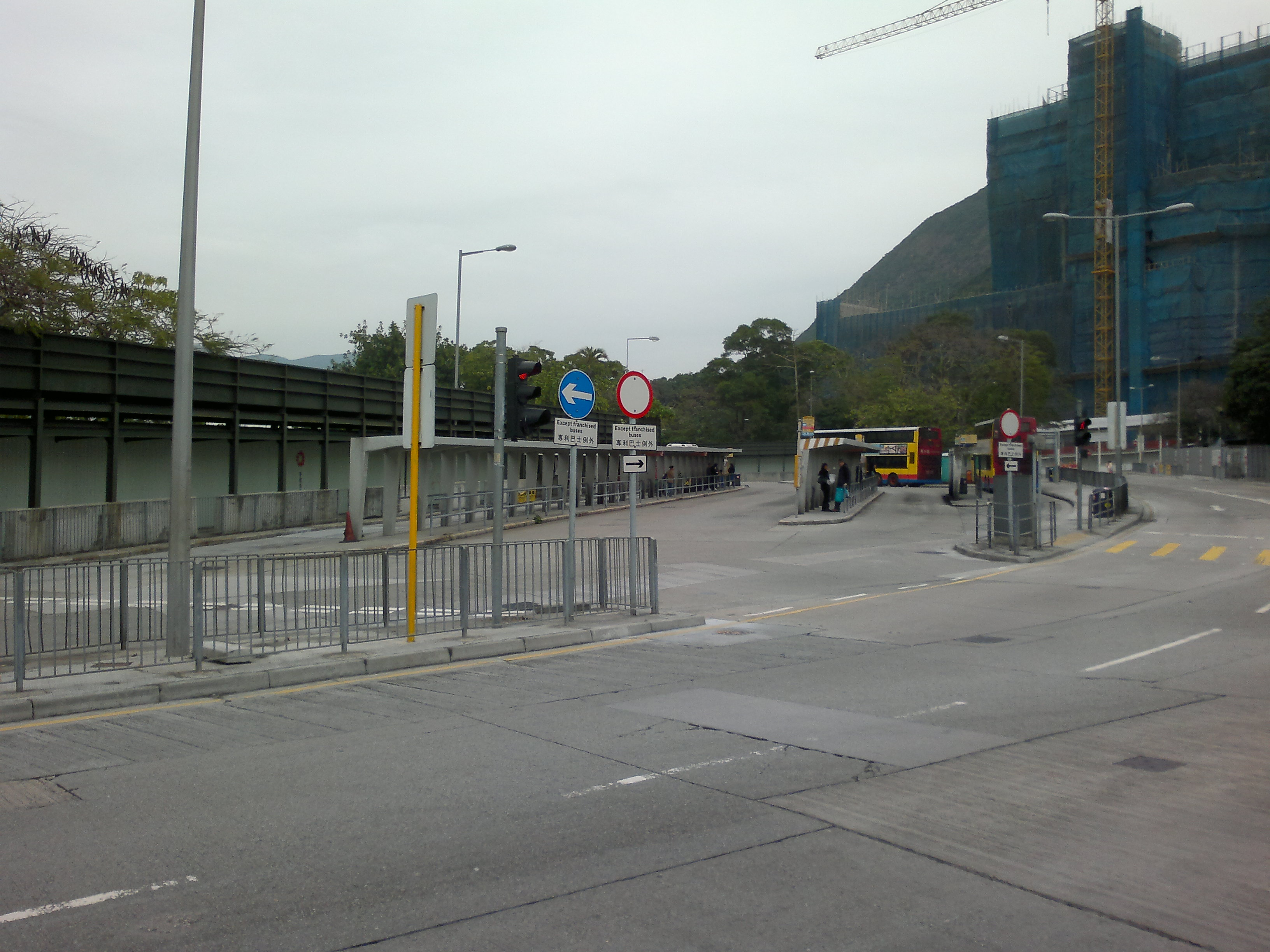 Wong Chuk Hang Bus Terminus